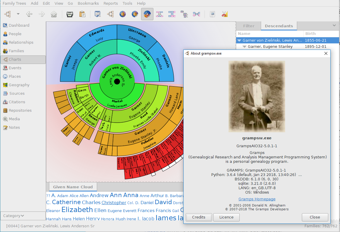 Gramps 5.0.1 genealogy software. Showing Fan Chart.